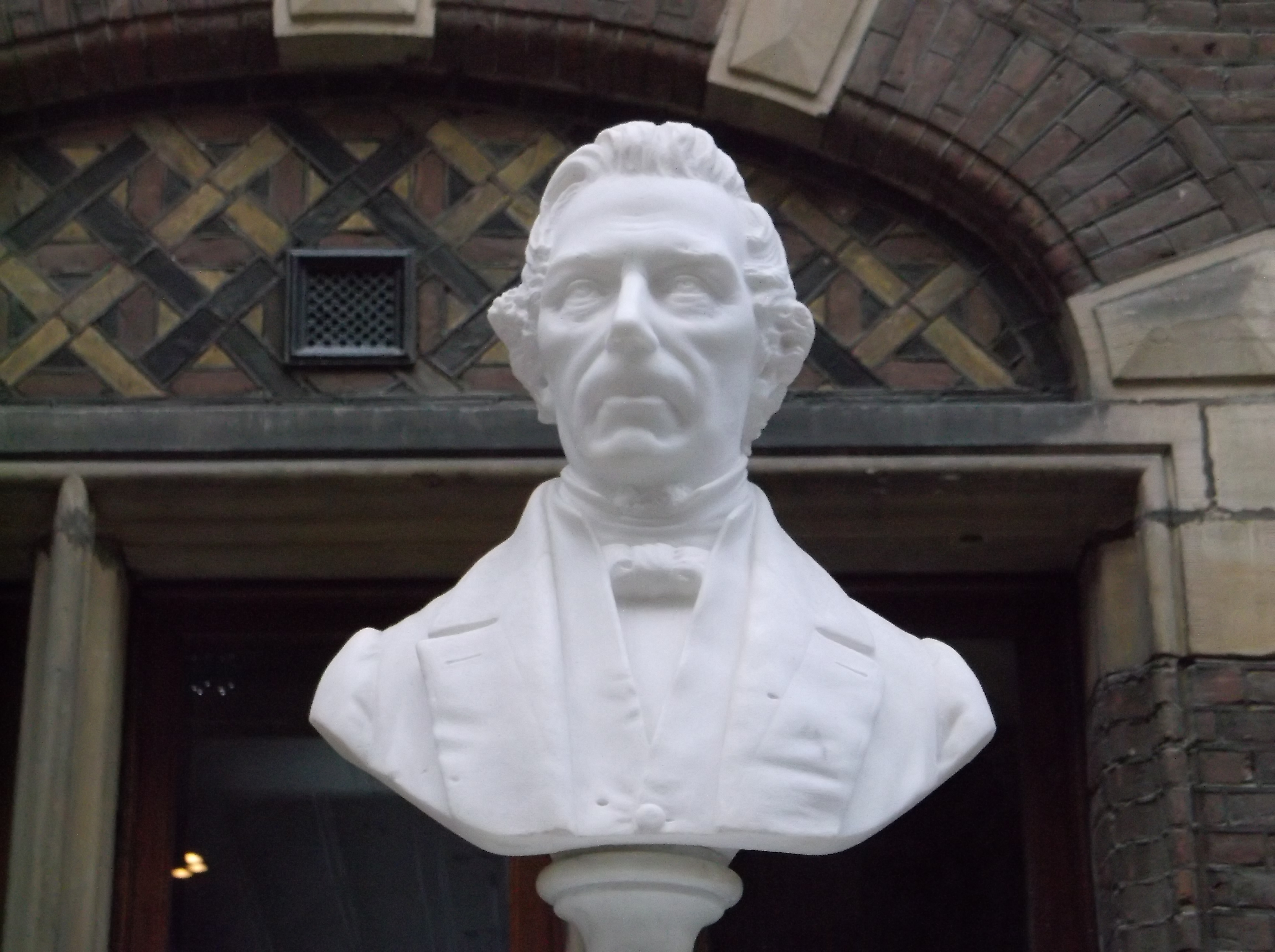 Buste in the Statenpassage in the building of the Dutch lower house.